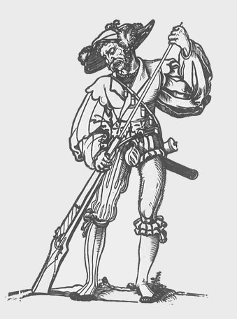 Lansknecht ramming the charge home in his arquebus